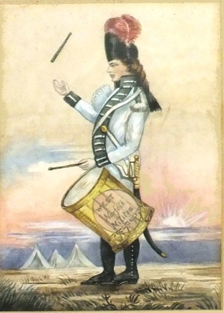 A musician of the West Norfolk Militia, and the only known image of a West Norfolk Militia uniform in the public domain.